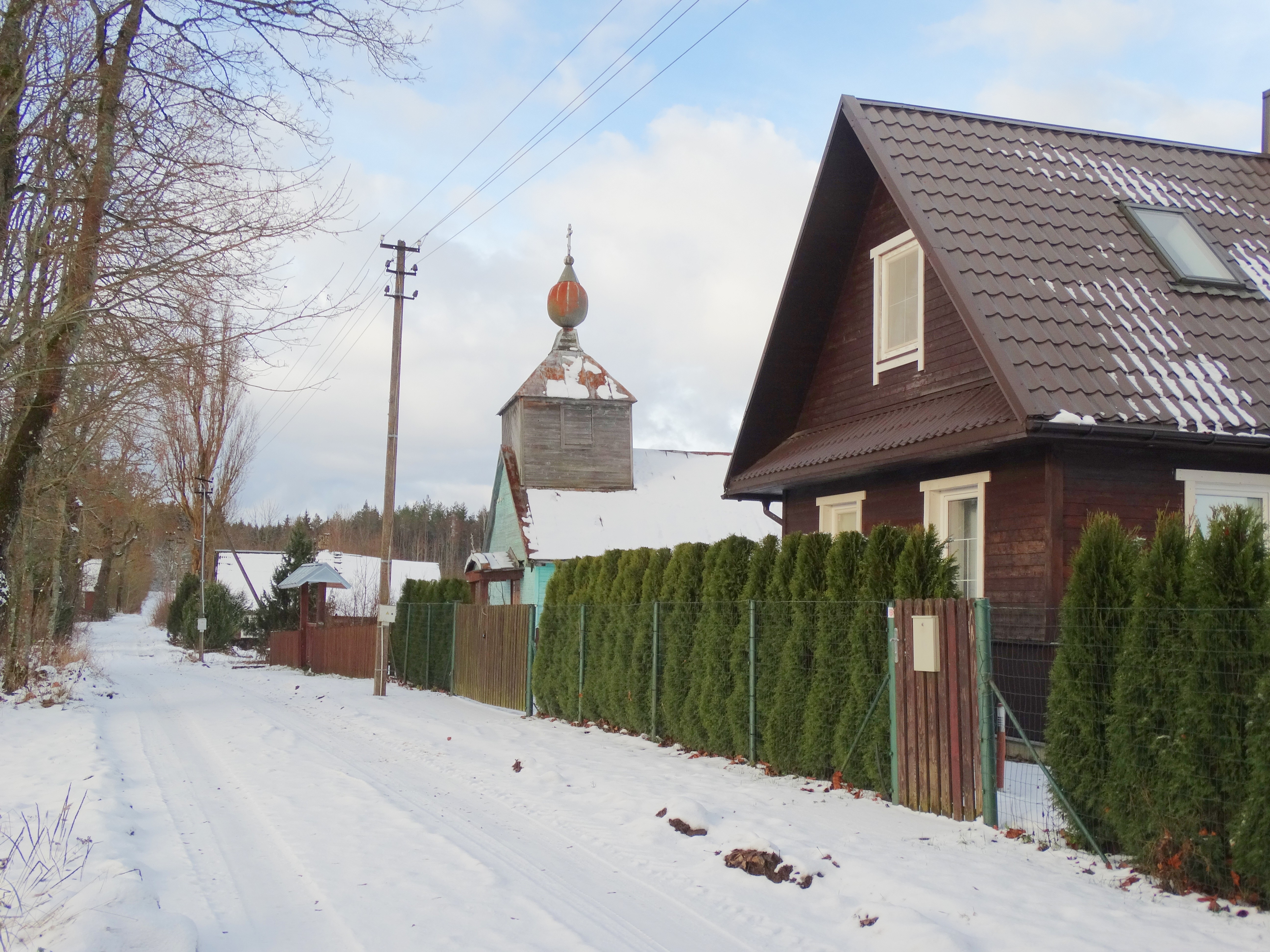 Daniliškės, Trakai district, Lithuania